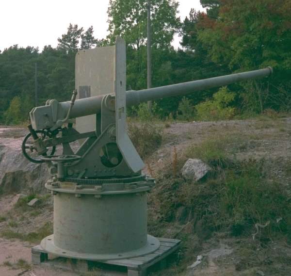 57mm Nordenfelt coast defence gun, with 47.8 calibres barrel. At Gyltö, western archipelago of Finland.